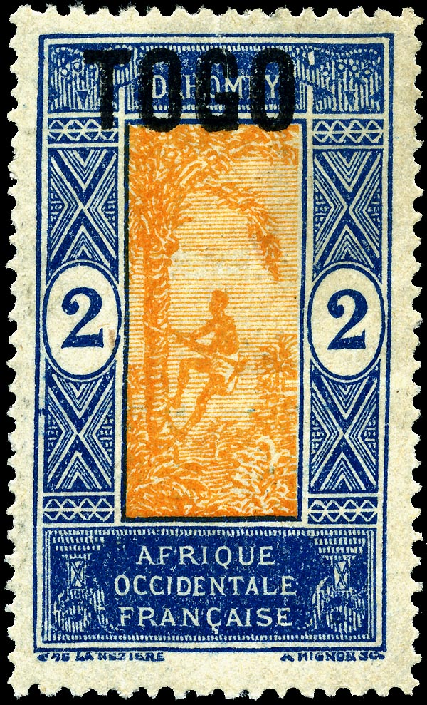 Togo 2c overprint stamp of 1921